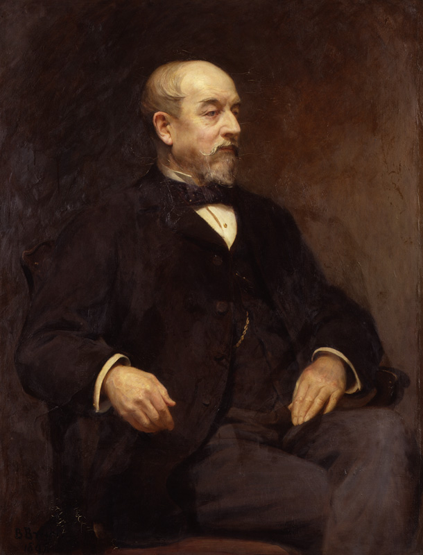 Portrait of Samuel Canning (1823–1908), English electrical engineer involved in submarine telegraphy.